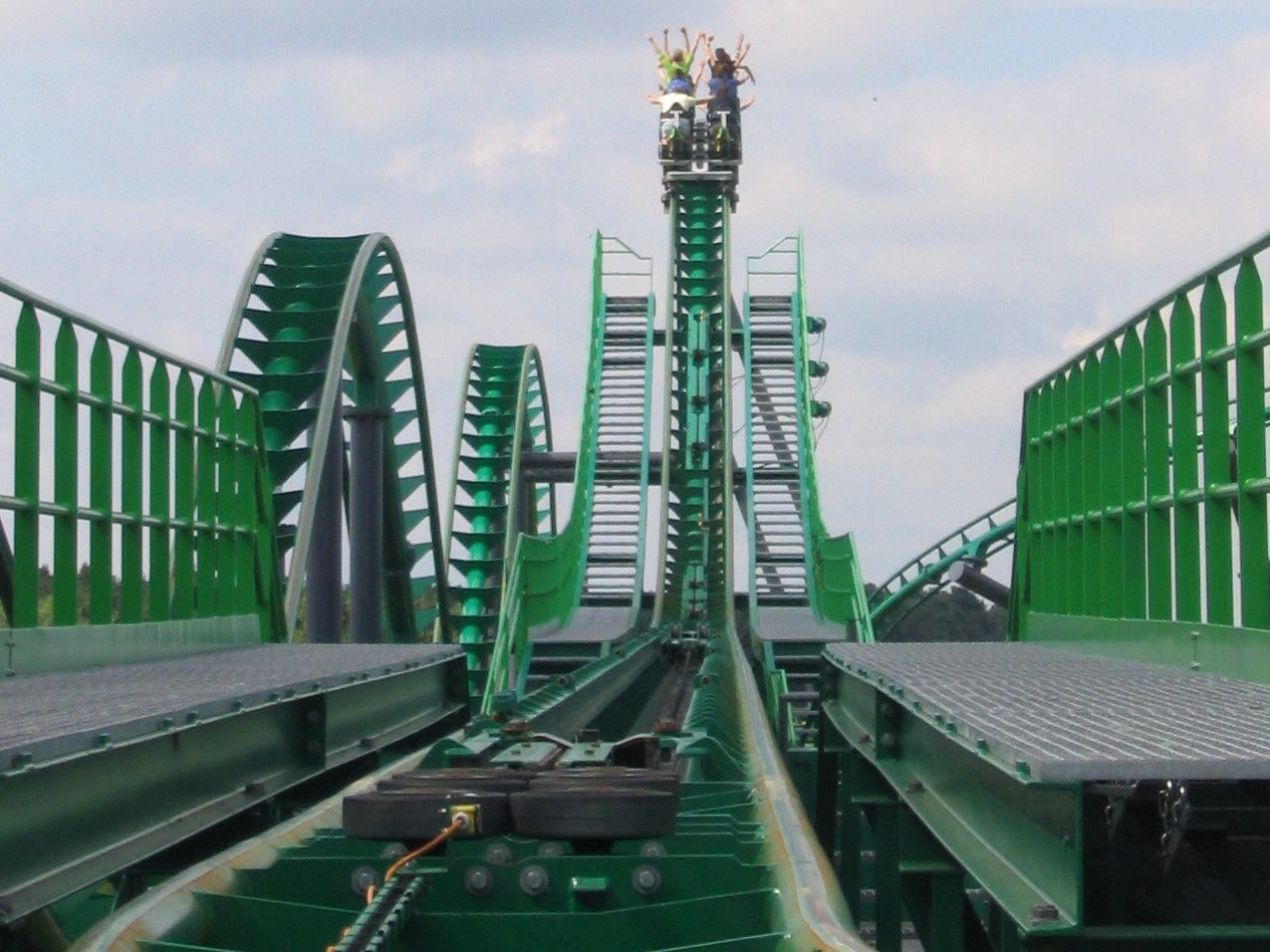 Boosterbike at Toverland Acceleration Track